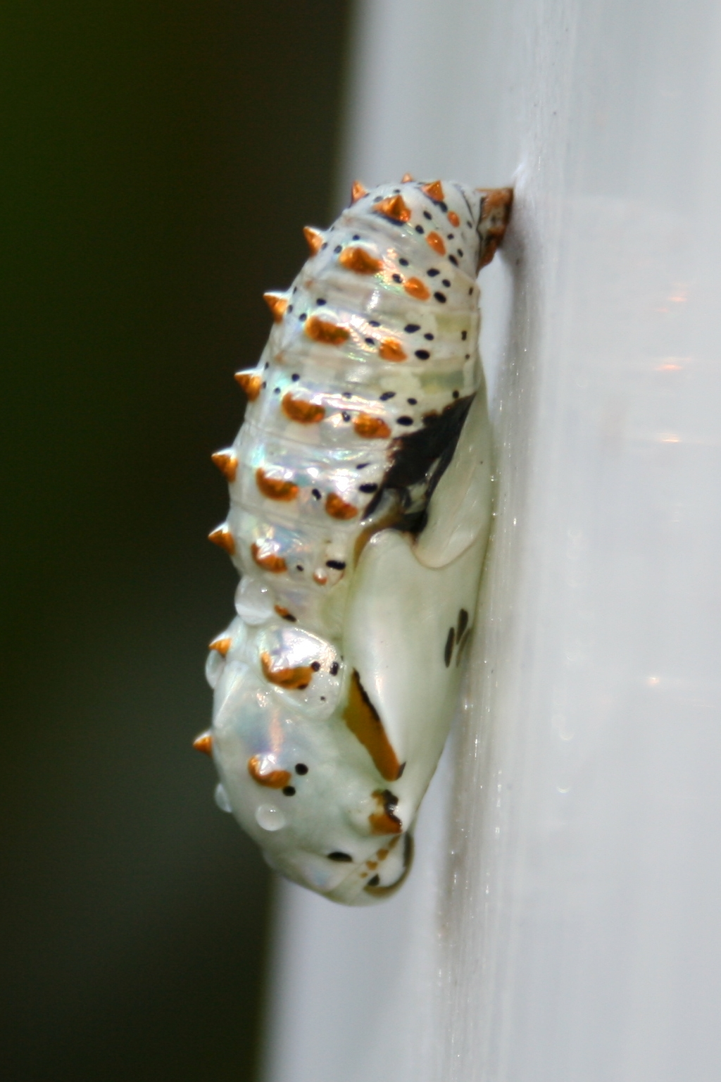 The pupa of a Variegated Fritillary (Euptoieta claudia) Butterfly photographed in my garden in Rock Hill, South Carolina, USA.